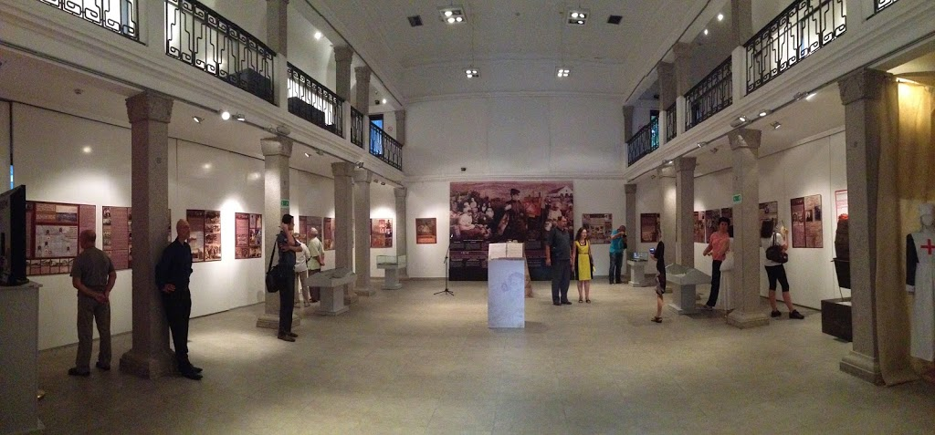 Exhibitions in Nis Sinagogogi; Valjevo 1914-1915 city hospital